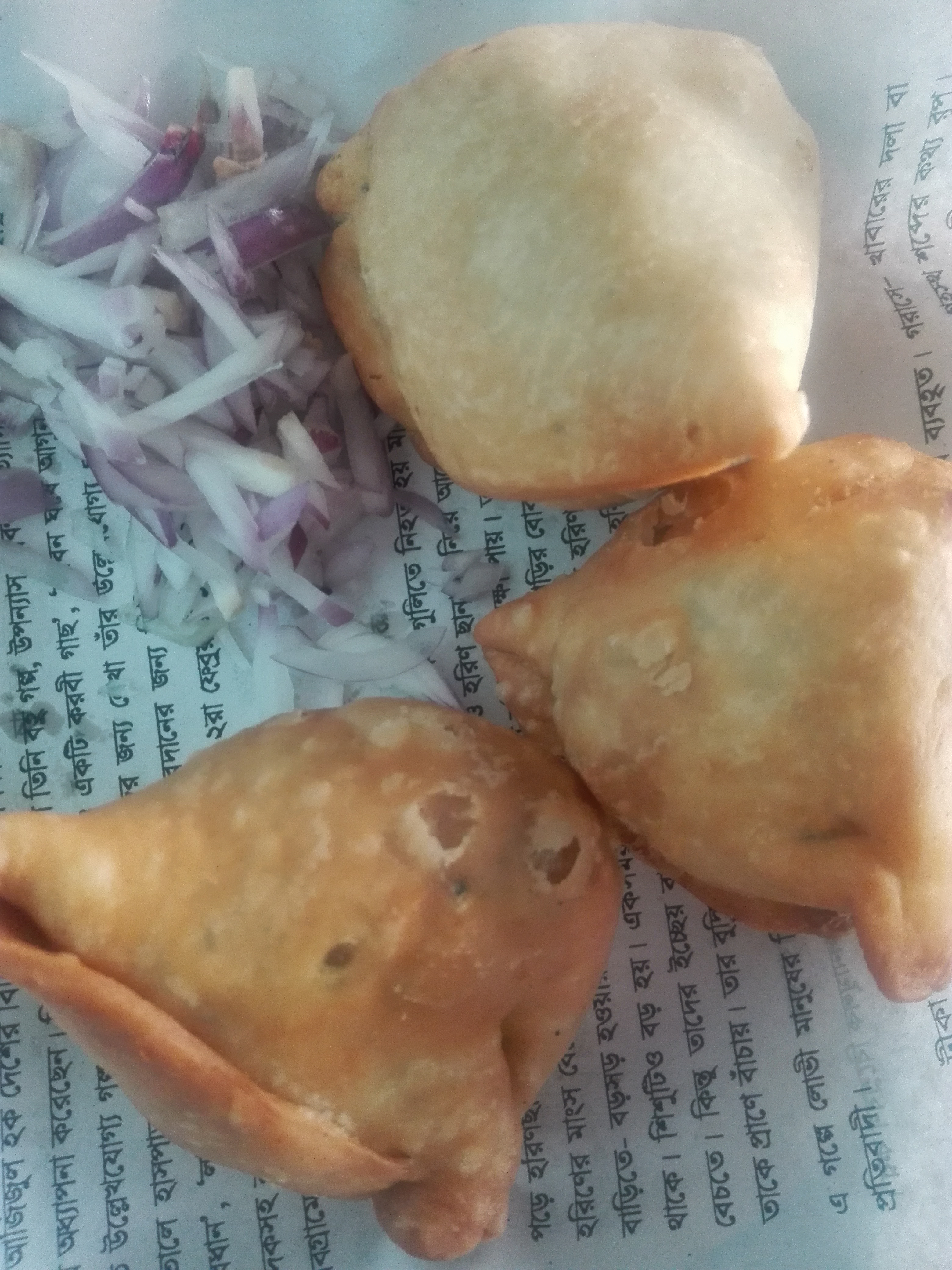 singara with sliced onions